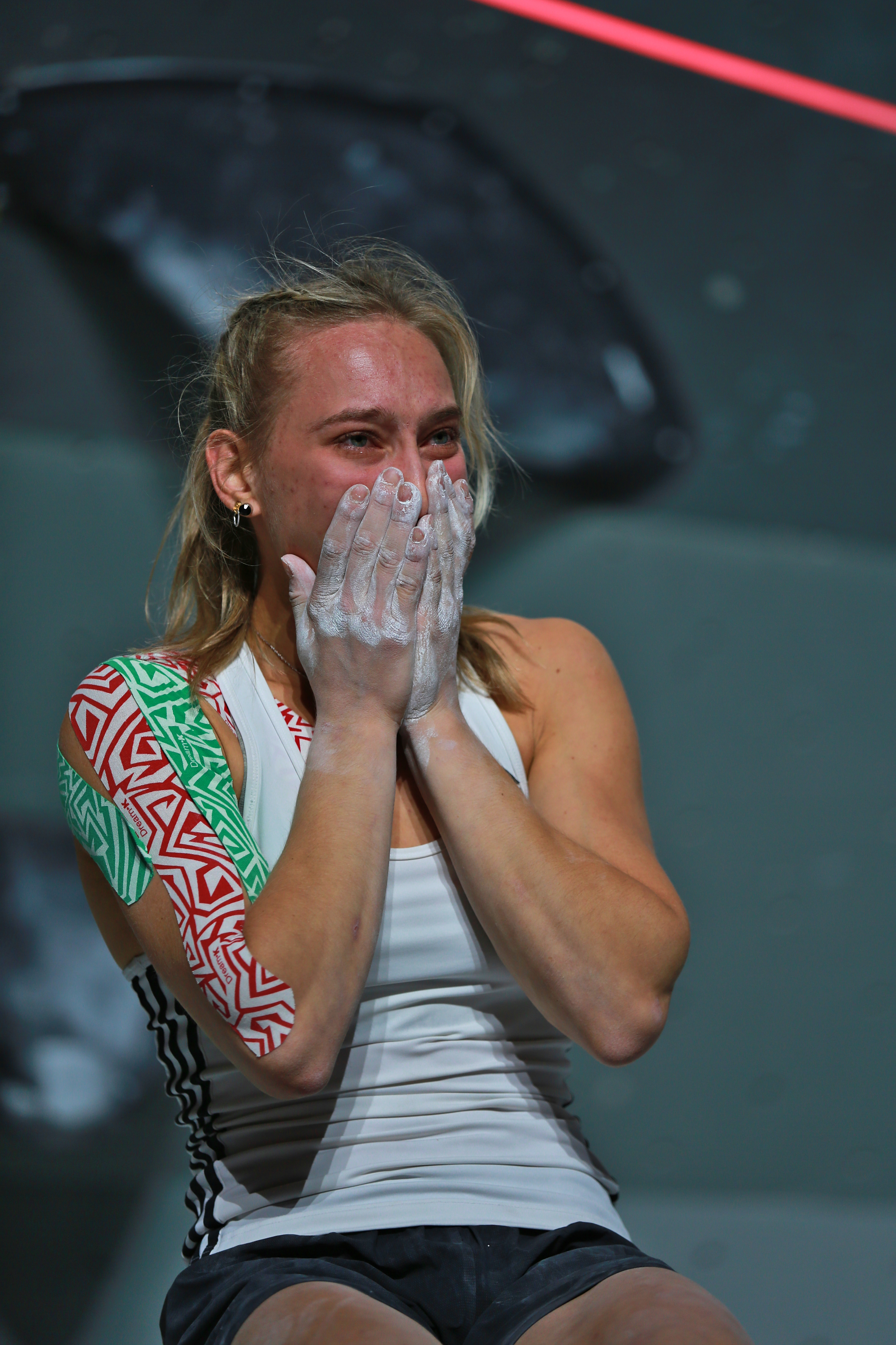 Climbing World Championships 2018 Boulder Final Garnbret